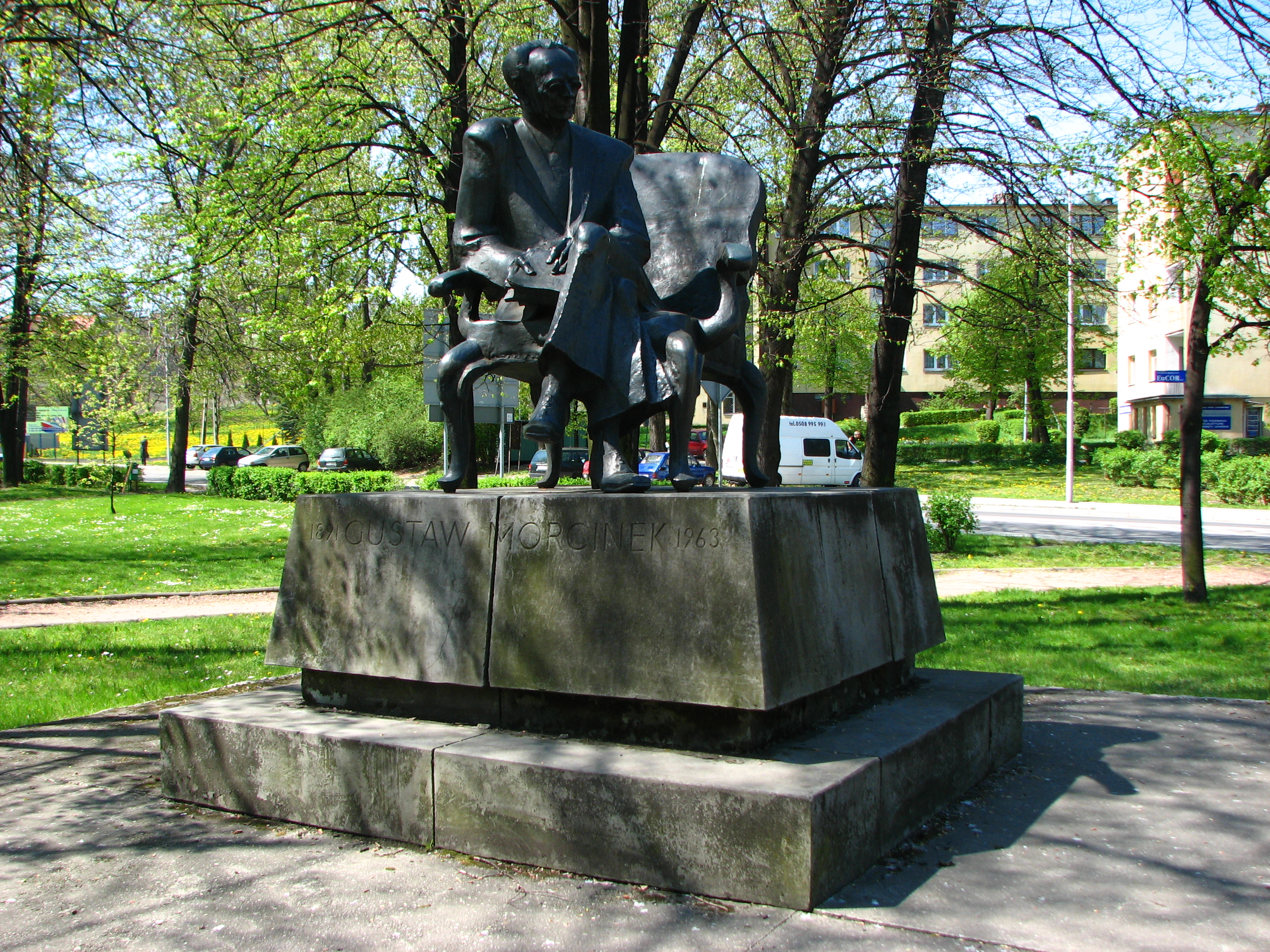 Gustaw Morcinek monument in Skoczow, designed by prof. Jan Kucz, unveiled on 1987-12-05